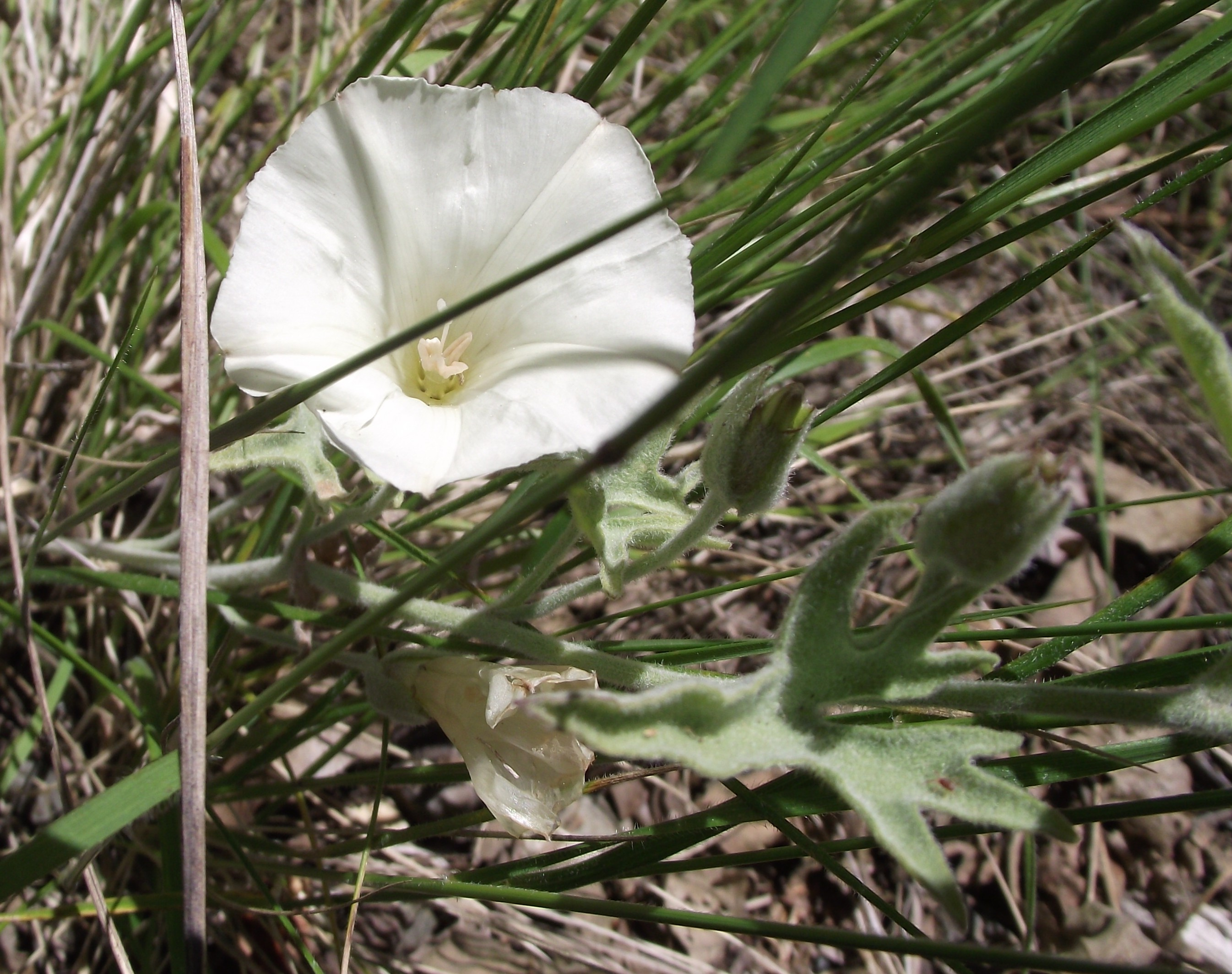 Calystegia stebbinsii in the UC Botanical Garden, Berkeley, California, USA. Identified by sign.